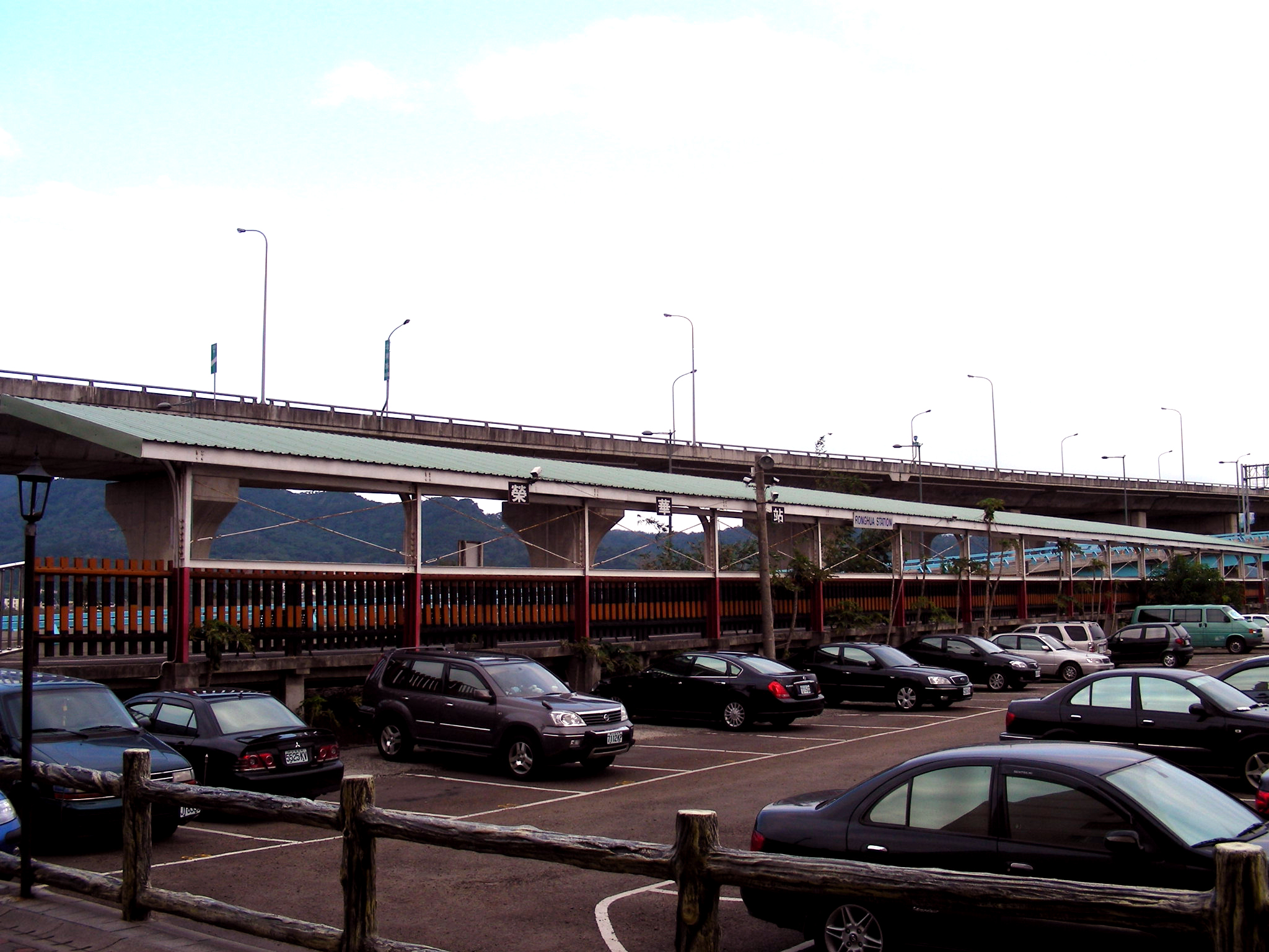 Taiwan "Rong Hua" Railway Station